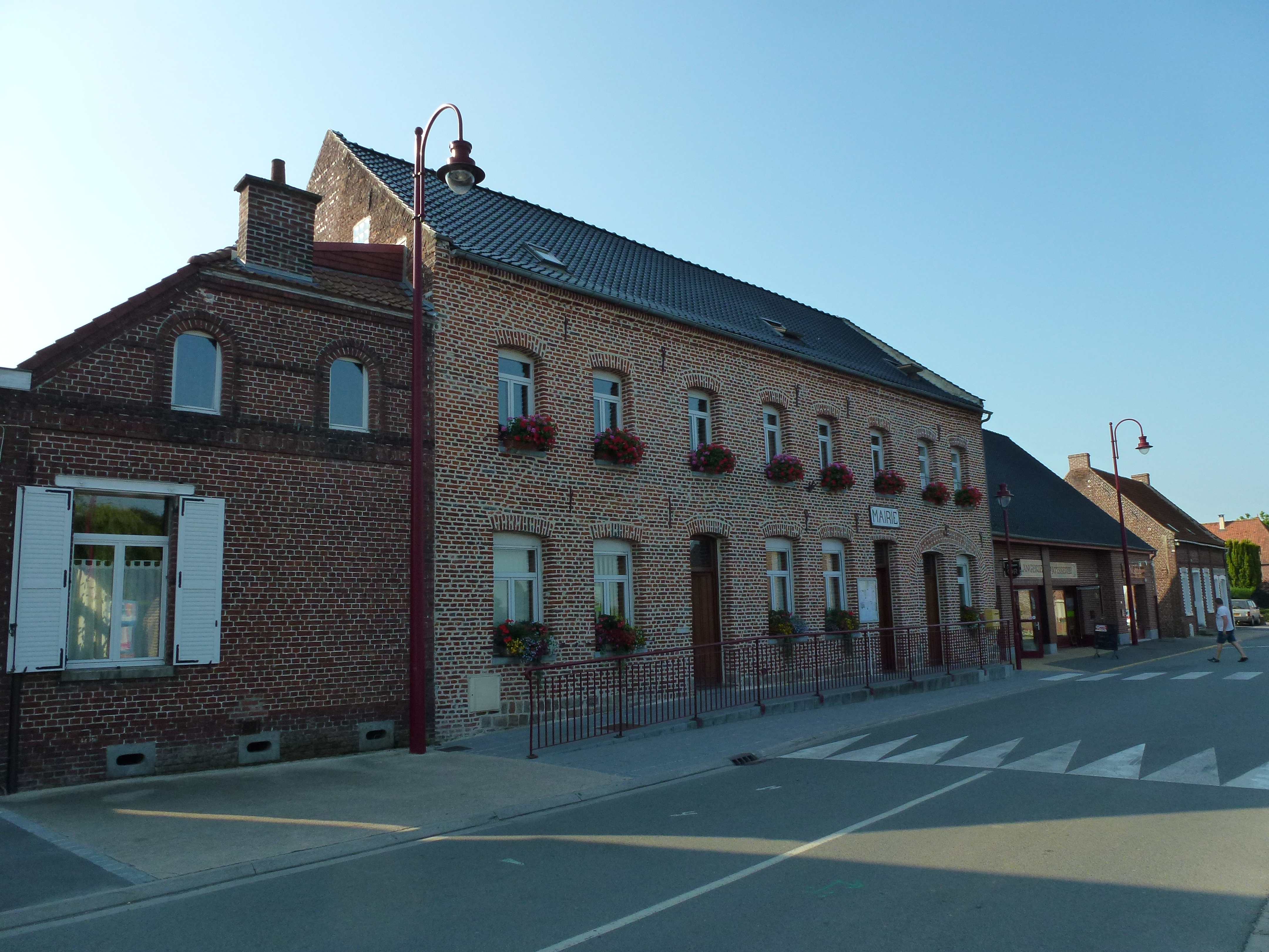 Saméon (Nord, Fr) mairie